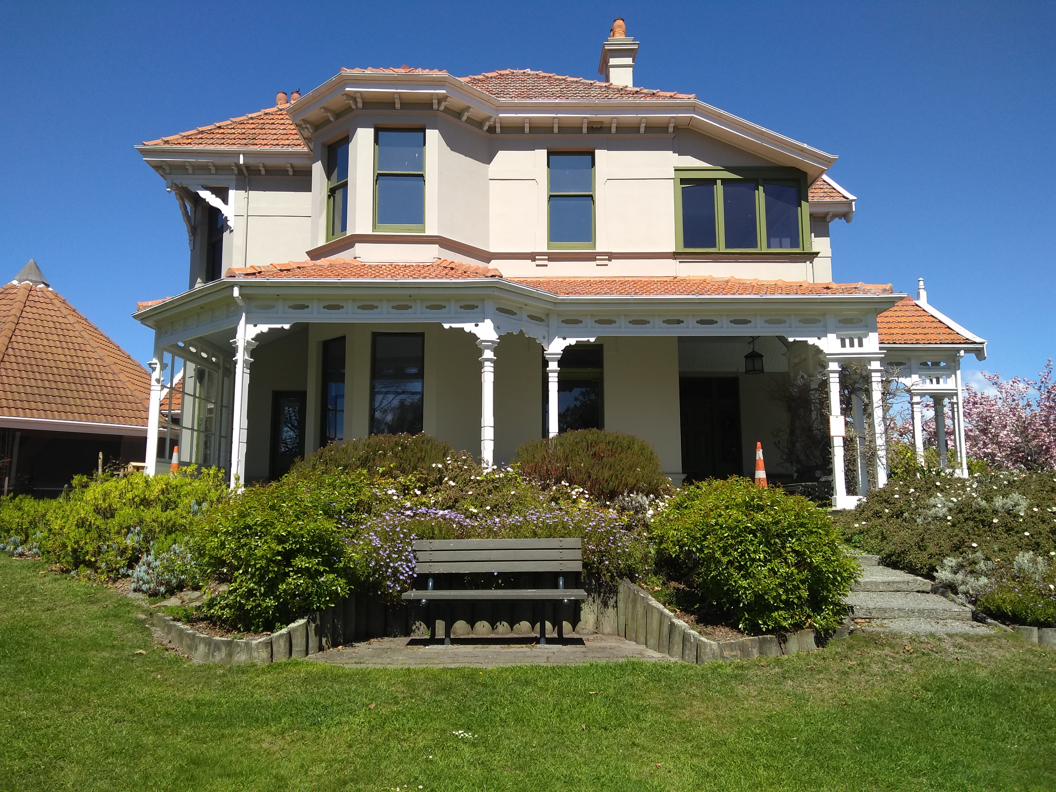 North side of the house at the Aigantighe Art Gallery, Timaru, New Zealand.